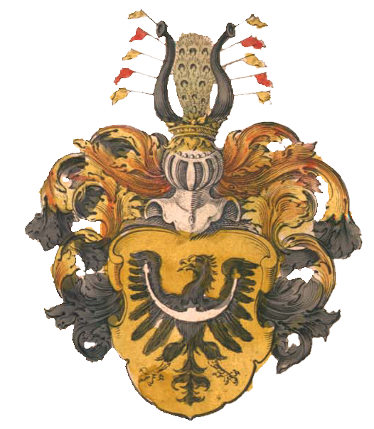 Coat of arms of the Duchy of Silesia taken from a map in the Blaeu Atlas, but it was a rework from Silesia Ducatus (A Martino Helwigio Nißense descriptus), ca. 1561